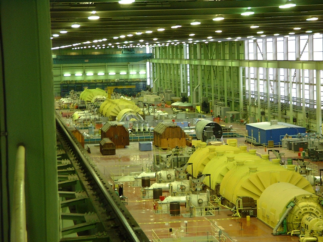 Bruce A Turbine Hall during the 2002-04 Bruce A restart project. T/A 4 furthest from the camera.